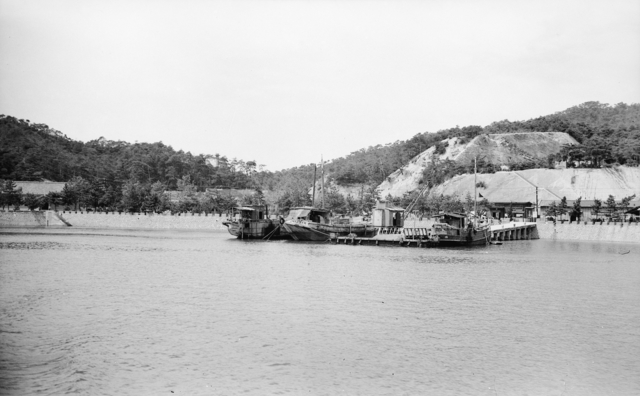 OKUNOSHIMA, JAPAN. APPROACHING SOUTH PIER FROM TADANOUMI. PART OF TADANOUMI IS ON THE MAINLAND OF HONSHU, WAS IN THE TOKYO 2ND ARMY ARSENAL AREA AND INCLUDED DOCKS, STOREHOUSES ETC ASSOCIATED WITH THE PRODUCTION OF MUSTARD GAS AND LEWISITE.